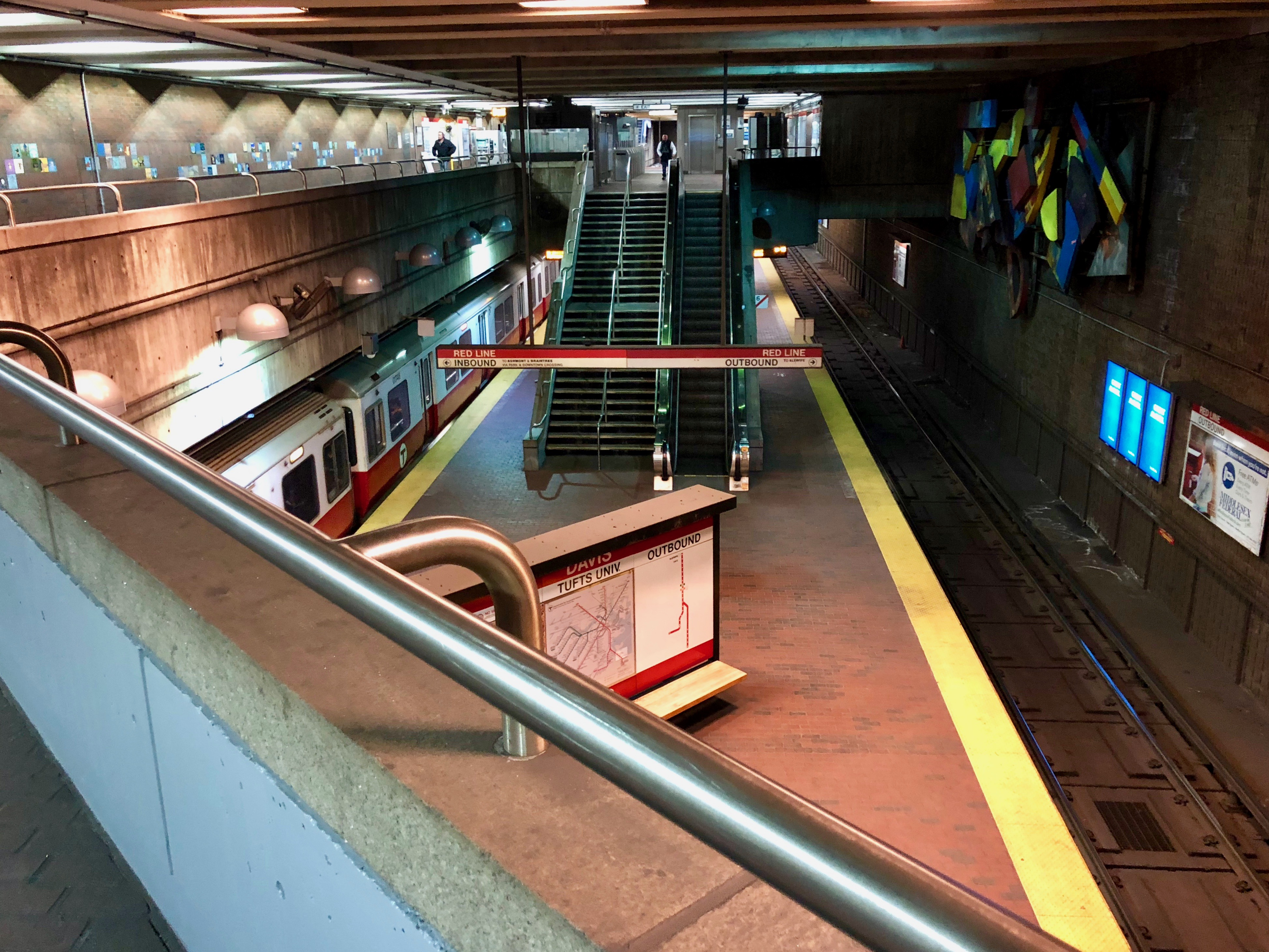 Davis station platform viewed from the mezzanine in April 2018